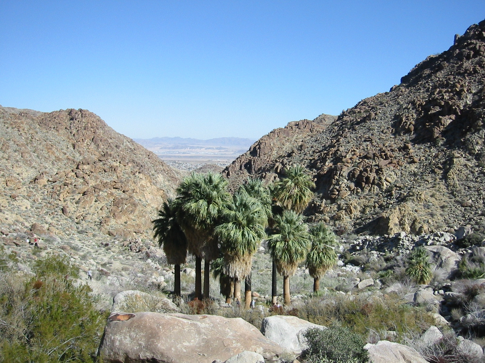 California Fan Palms (Washingtonia filifera) at an oasis in the Mojave Desert near Twentynine Palms, California.